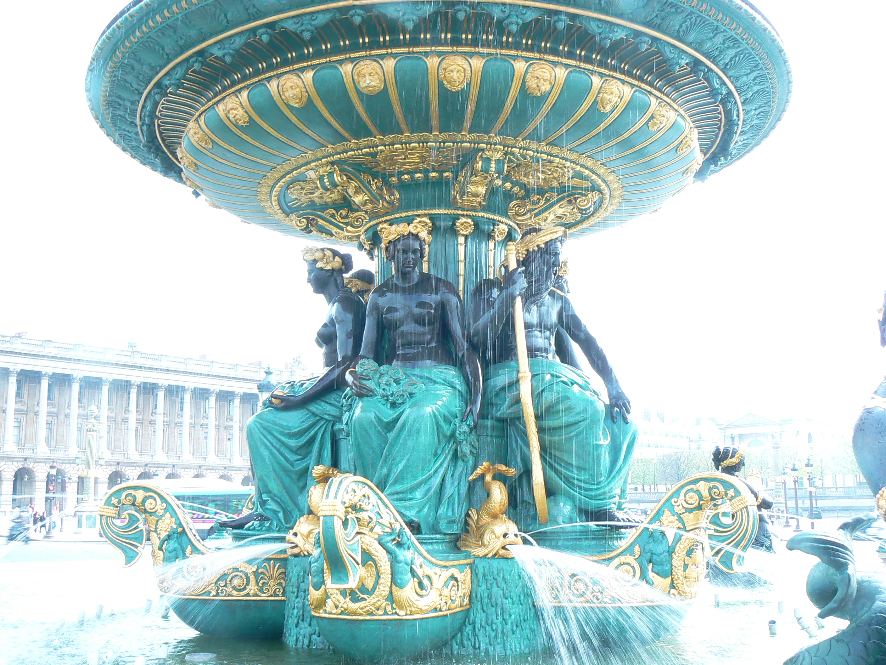 Fountain - Place de la Concorde - Paris